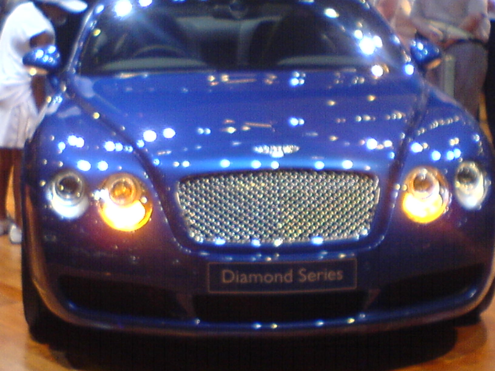 At the 2006 British International Motor Show. The mere mortal people were not allowed anywhere near the cars on the Bentley, and indeed on some of the other high end marques, stands.